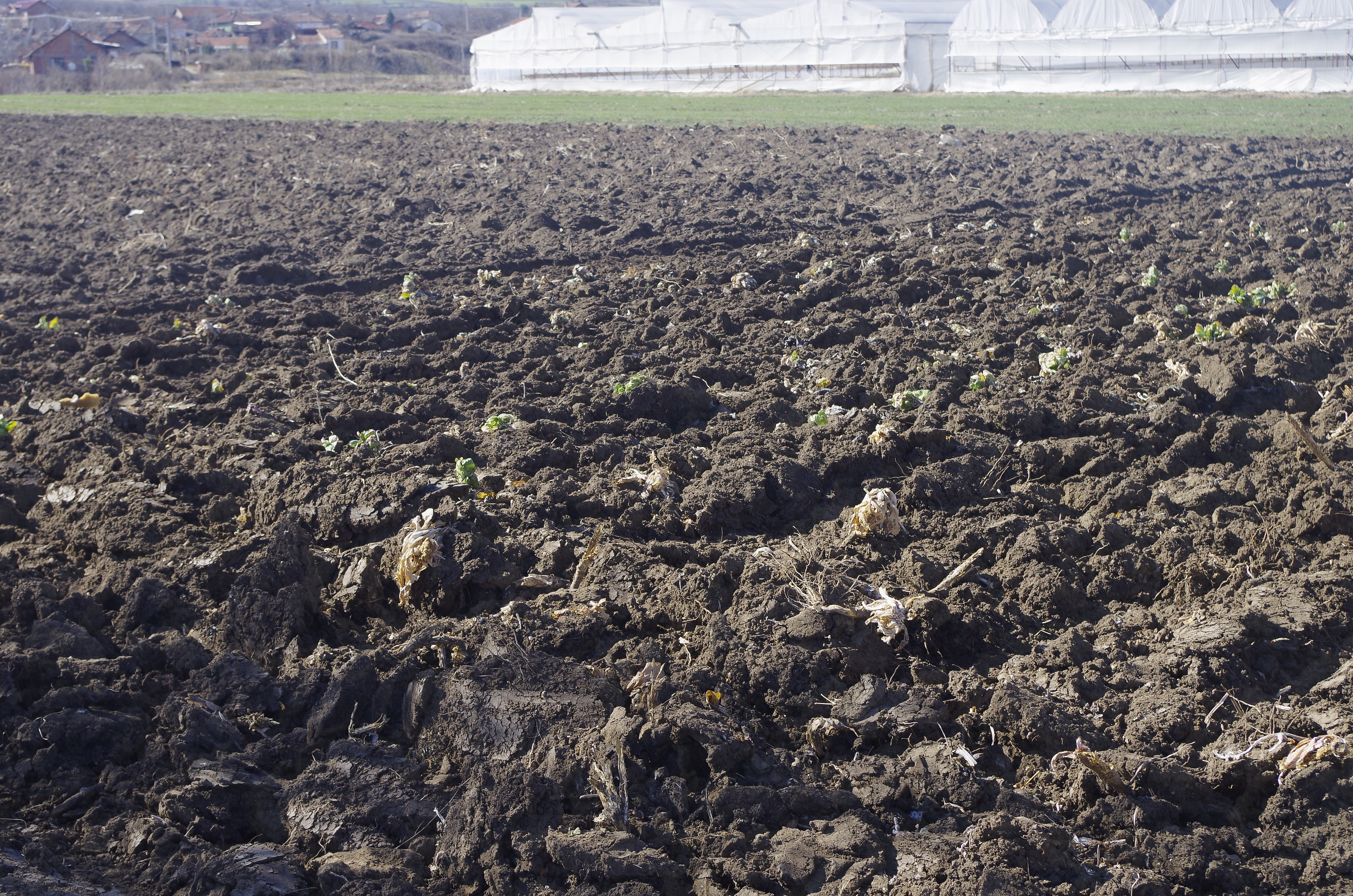 Plowing and sowing fields of barley